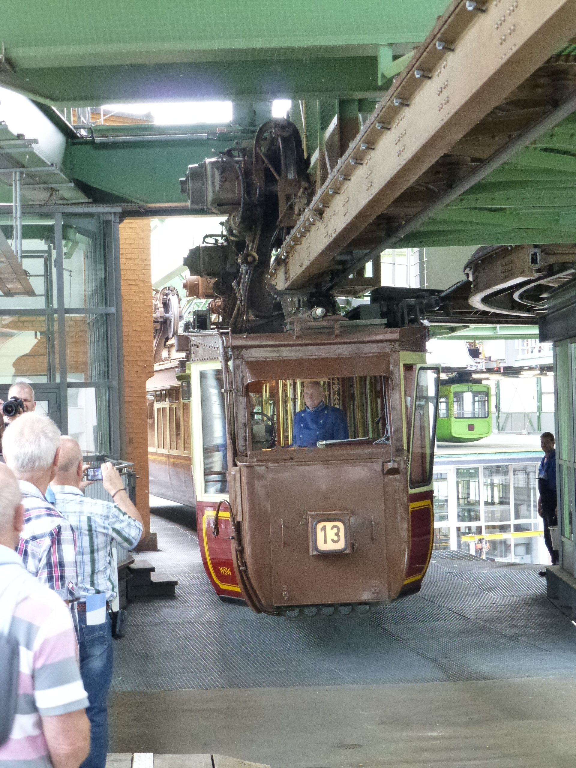 The action "We invite Samuel to Wuppertal".